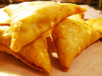 Samosas